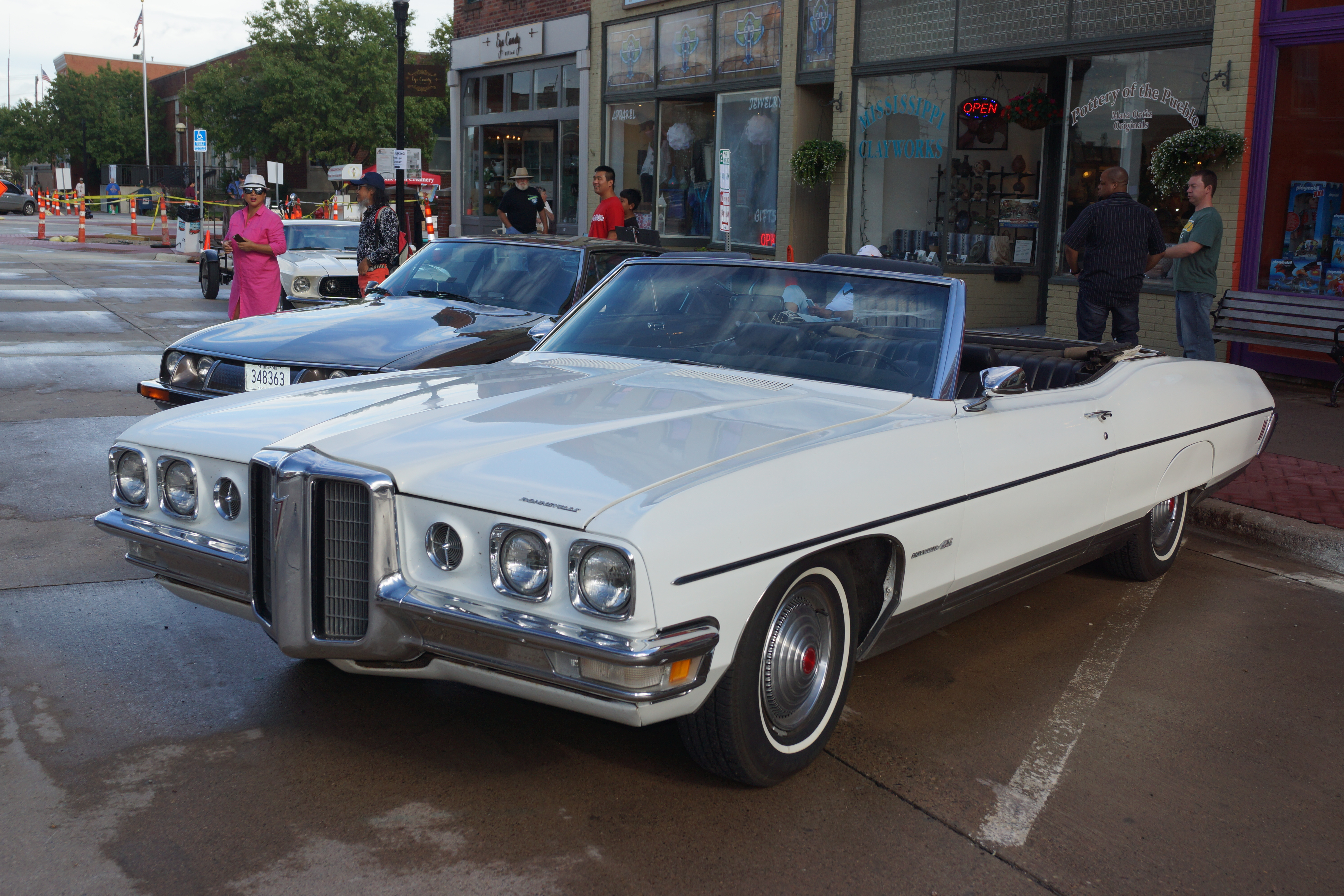 HISTORIC DOWNTOWN HASTINGS CRUISE-IN & CLASSIC CAR SHOW Hastings, Minnesota August 2016 Click here for more car pictures at my Flickr site.